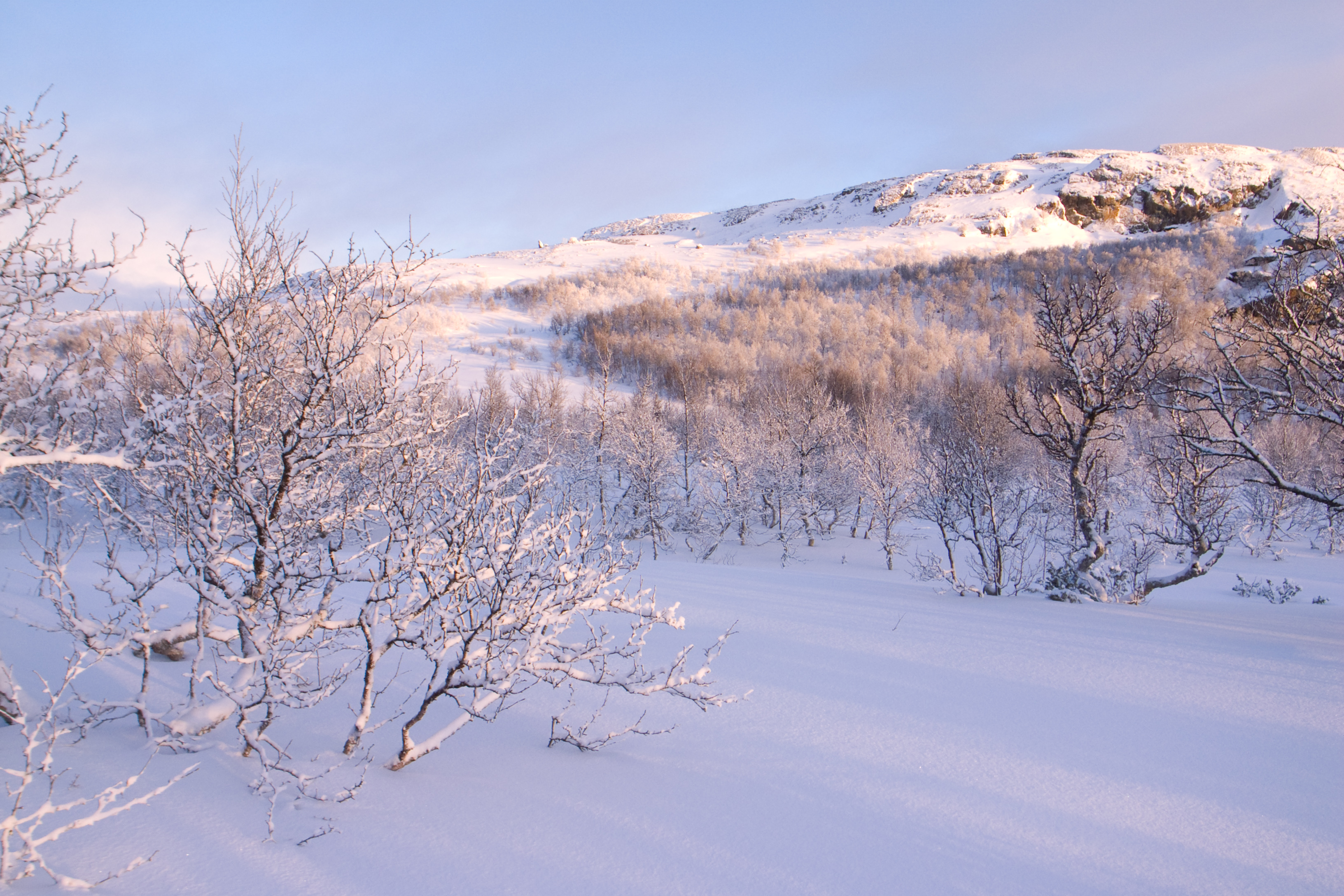 Landscape in the Femundsmarka in Winter.